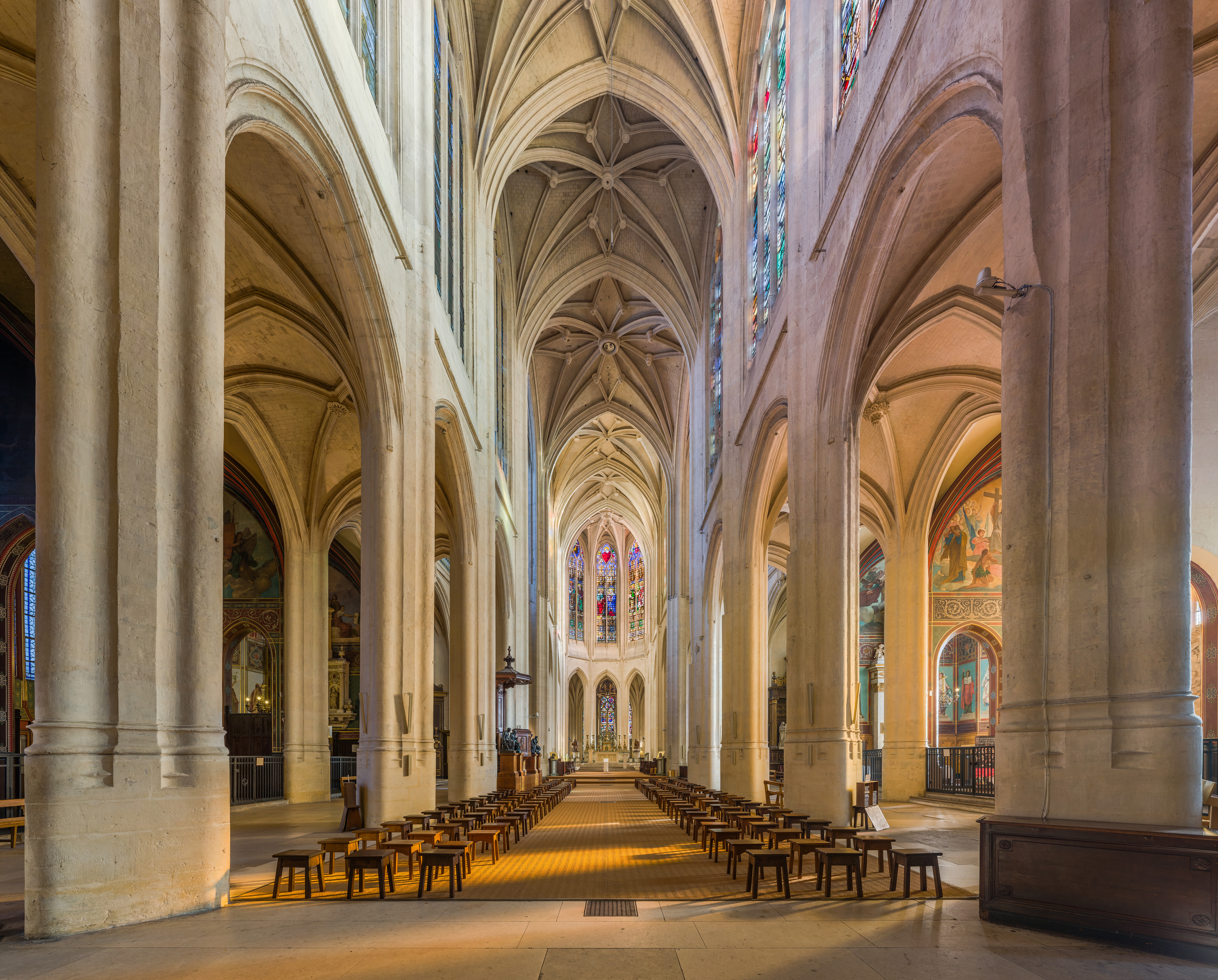 The interior of the Church of St-Gervais-St-Protais looking east toward the altar in Paris, France.